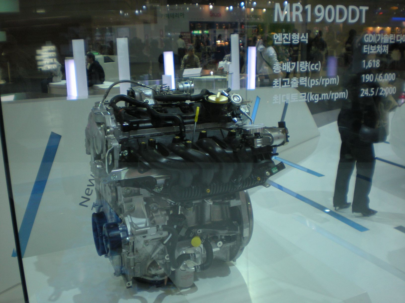 RENAULT SAMSUNG SM5